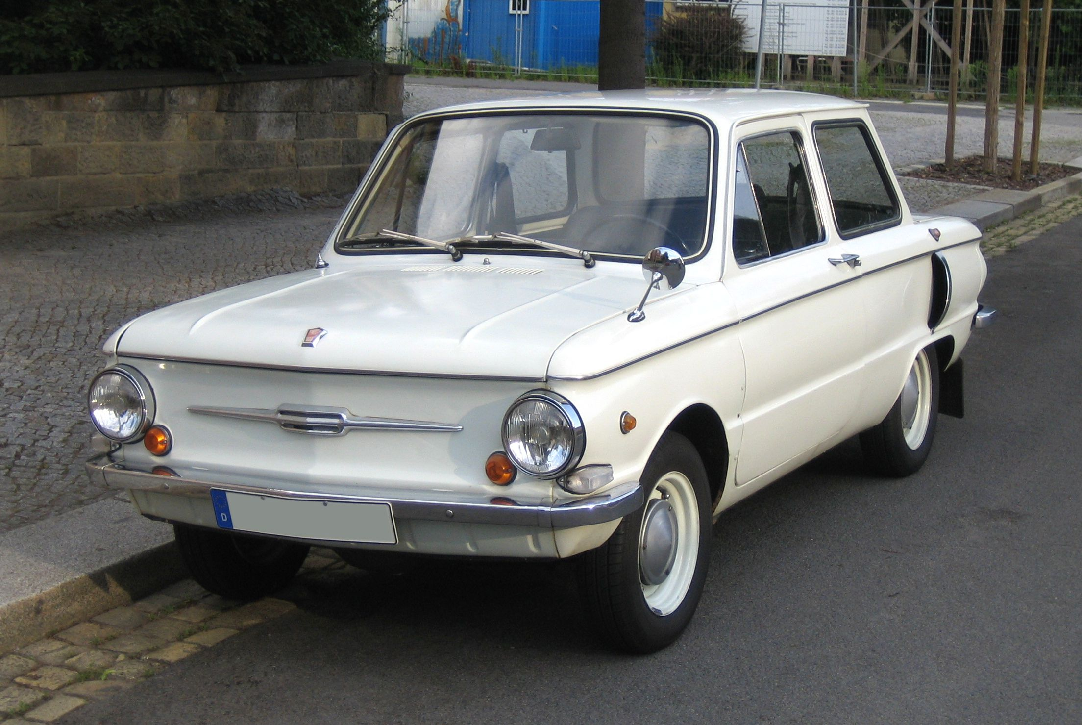 Zaporozhets ZAZ-968 (front view)